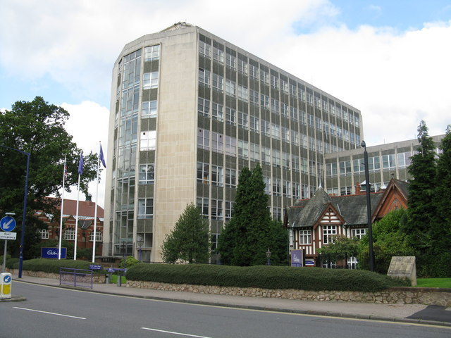 Cadbury's - large office block